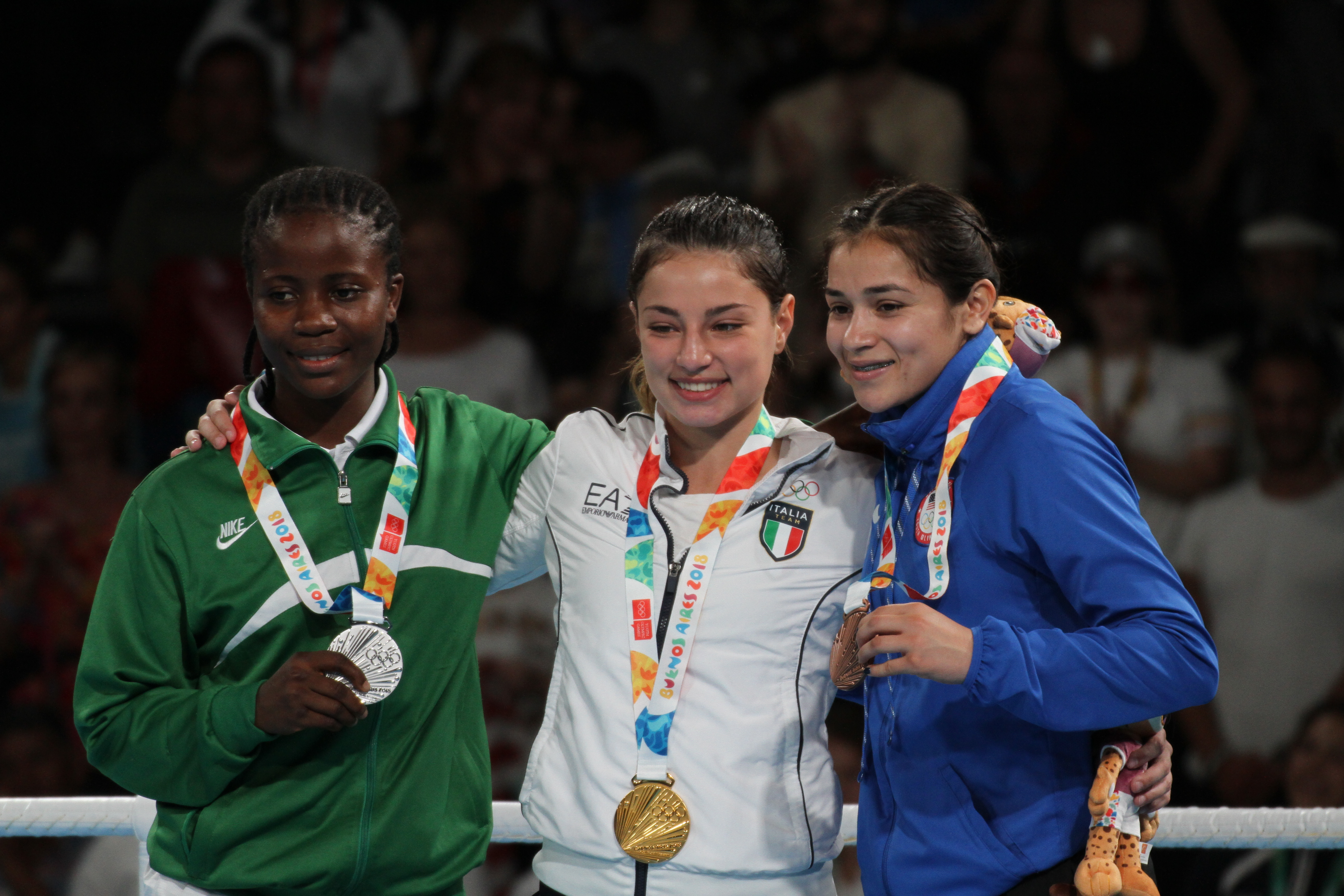 Victory ceremony of the Girls' flyweight Boxing tournament of the 2018 Summer Youth Olympics.